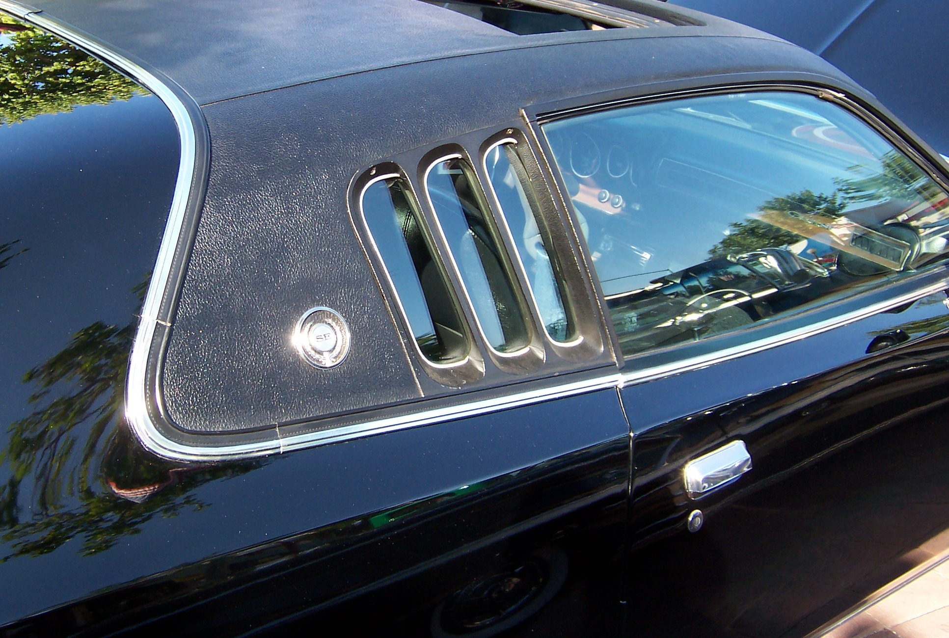 1973 Dodge Charger SE with vinyl roof and opera windows.